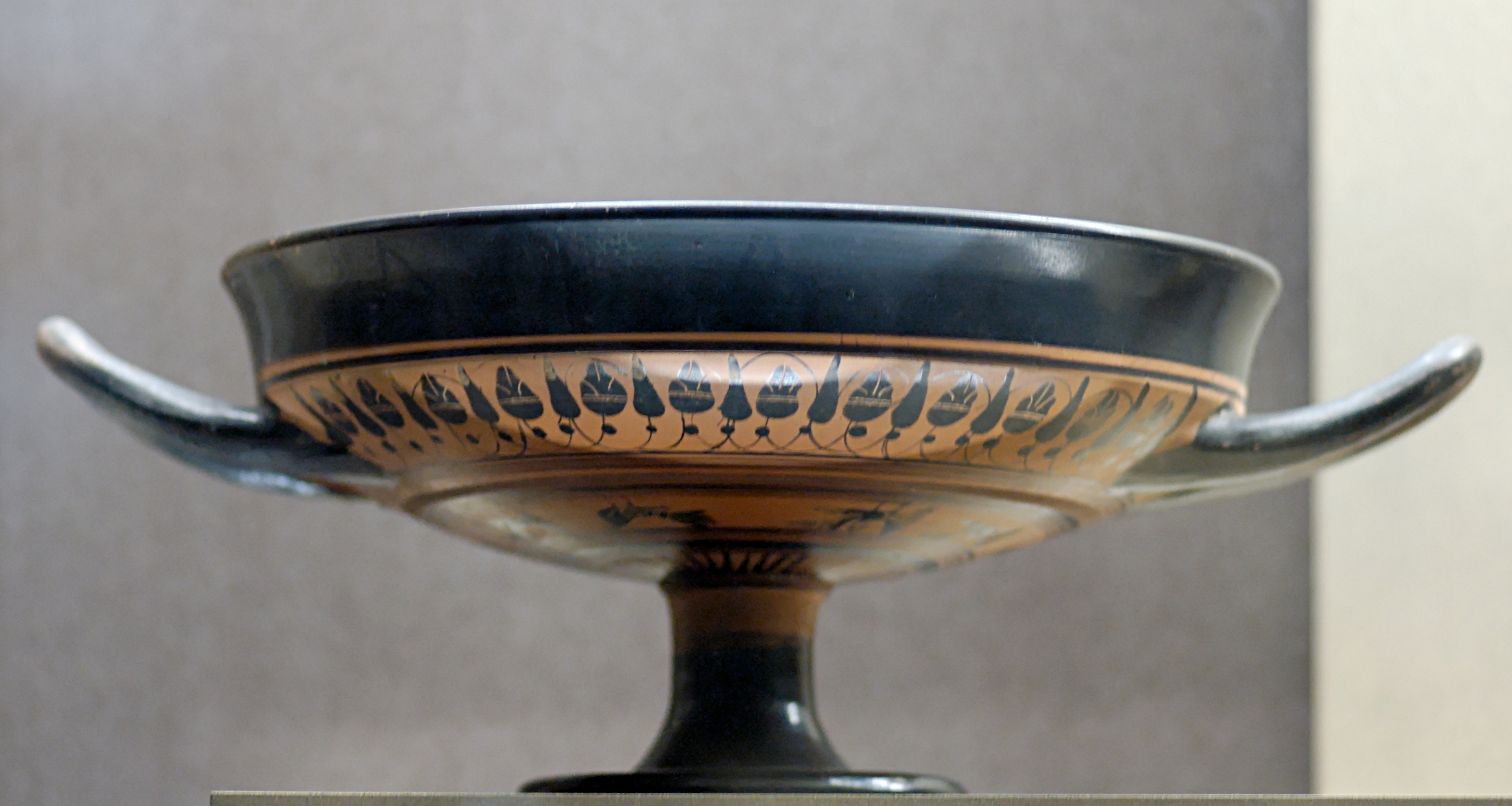 Attic black-figure Droop cup, ca. 550–530 BC. From Greece.